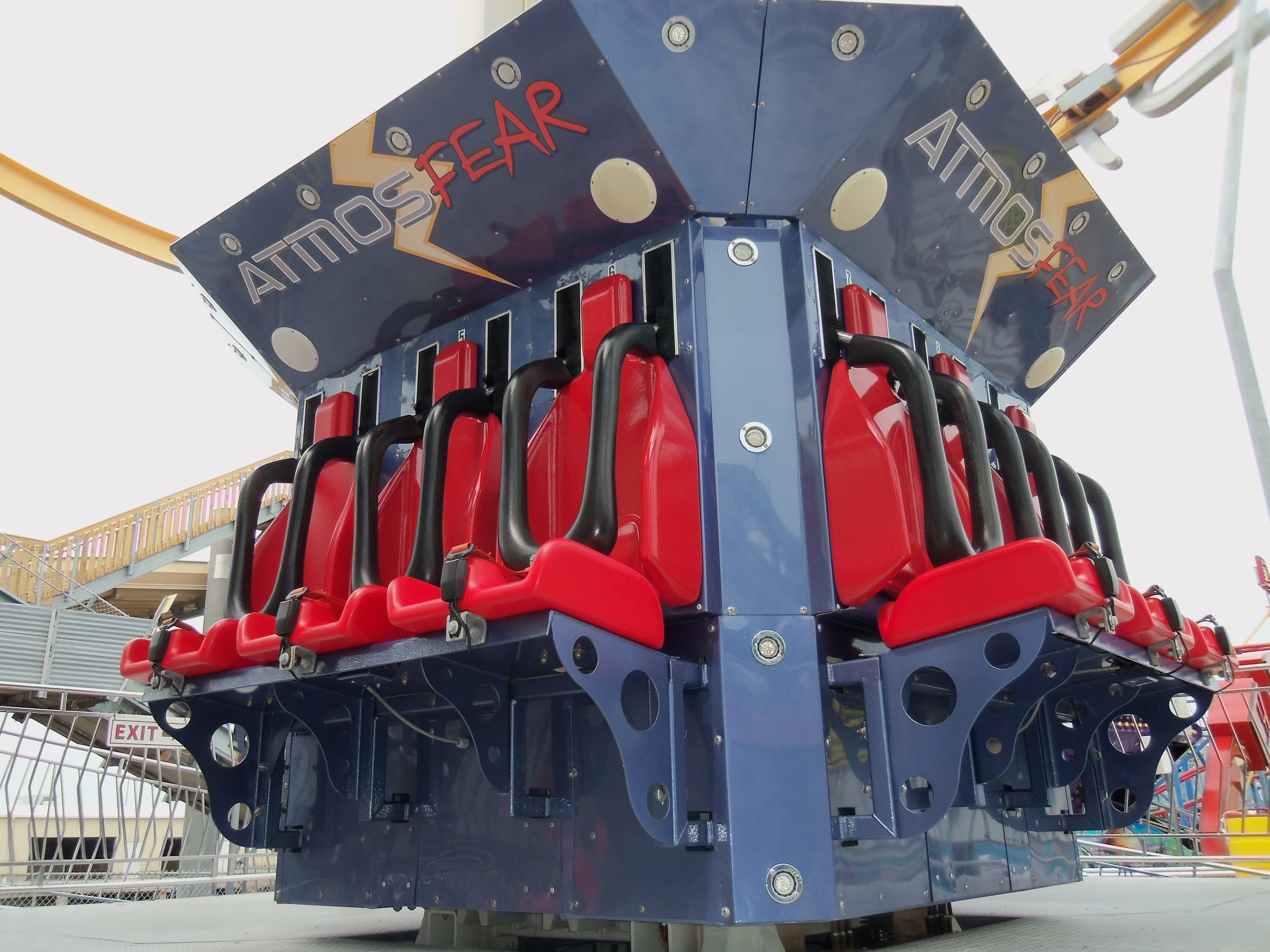 The seats on AtmosFEAR